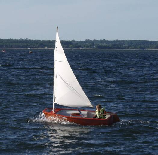 Optimist at full speed in Præstø Fiord